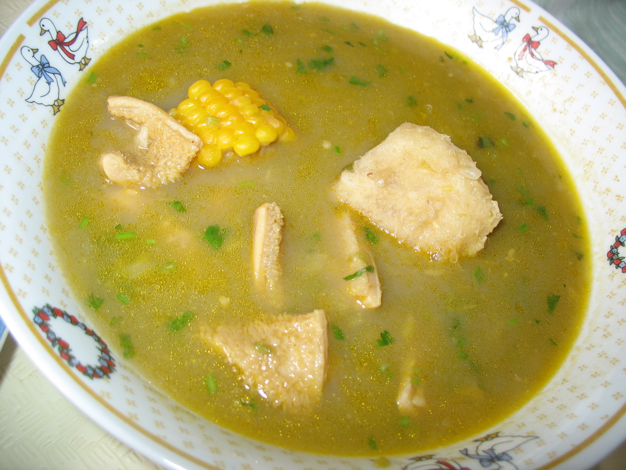 Barranquilla - Sancocho de mondongo